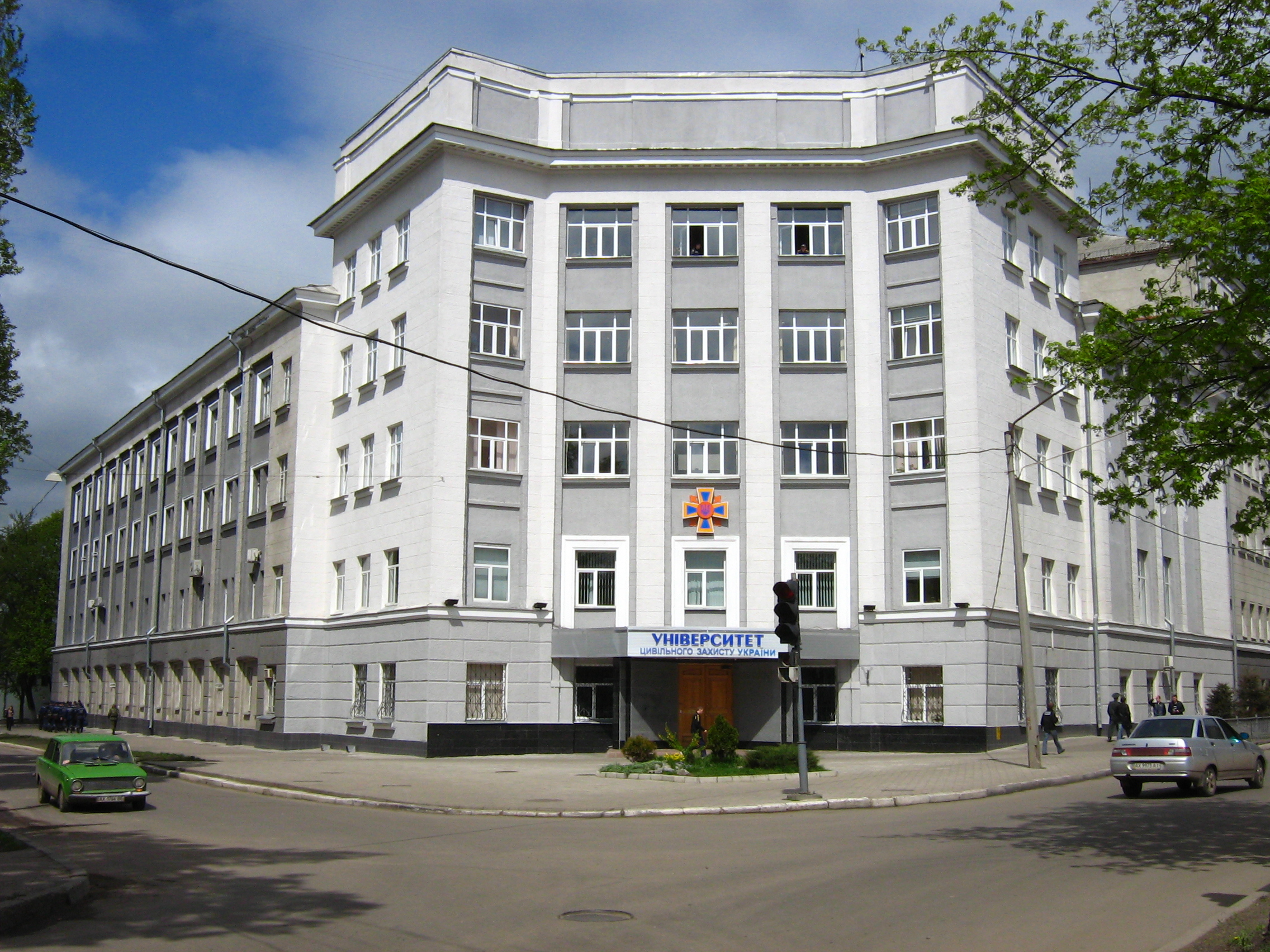 University of Civil Protection of Ukraine in Kharkov.